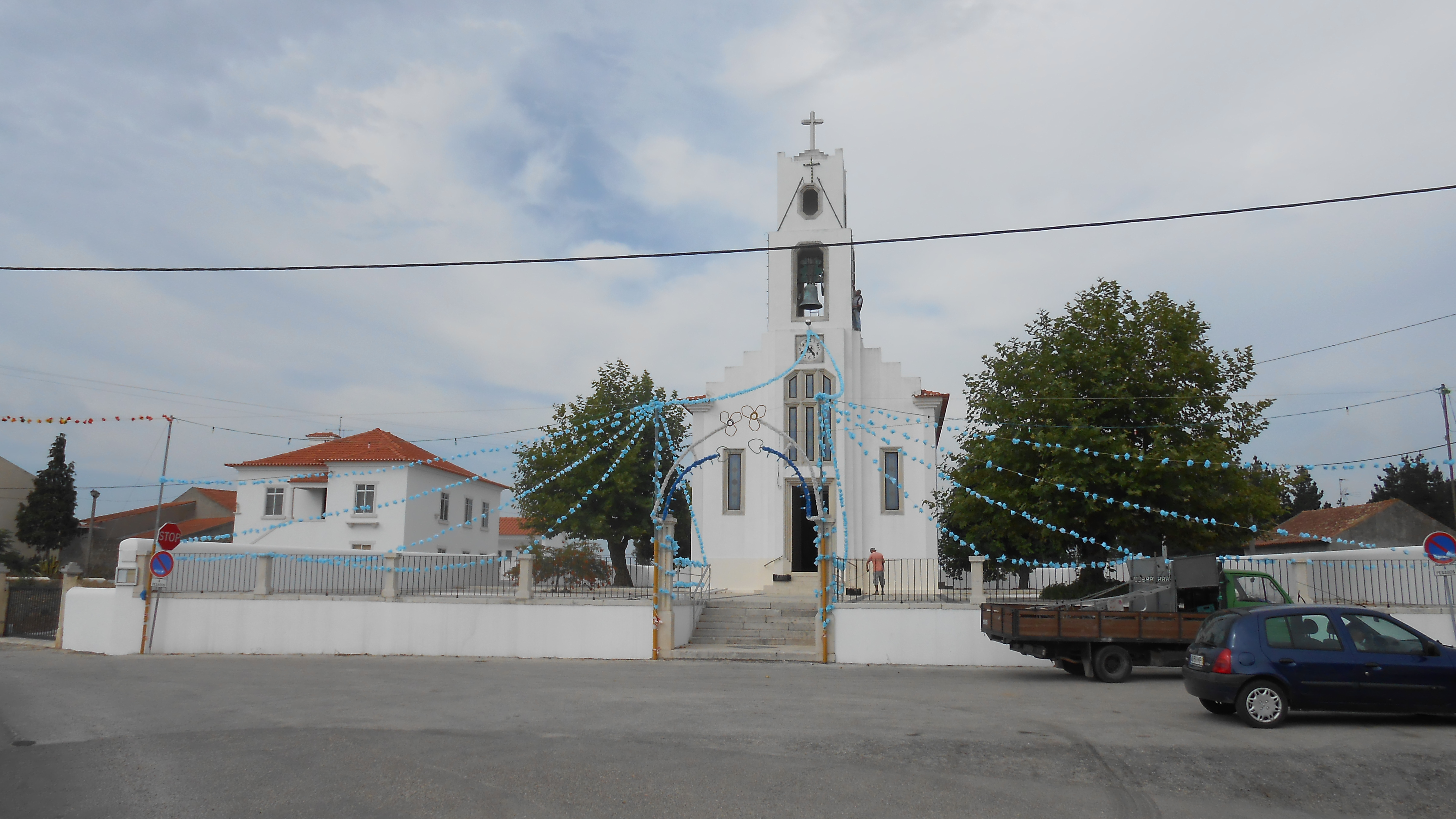 Igreja de Nossa Senhora da Graça, the church of the parish of Abrunheira, municipality of Montemor-o-Velho, district of Coimbra, Portugal